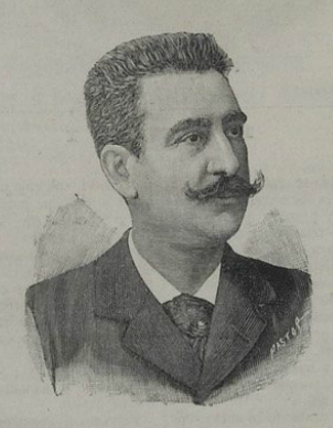 Francisco Moreira Freire Correia Manoel Torres de Aboim, 1st Viscount of Idanha.